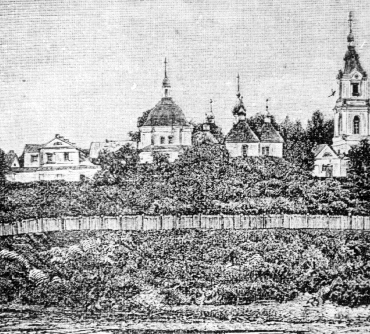 Troitsky Markov Monastery in Vitebsk